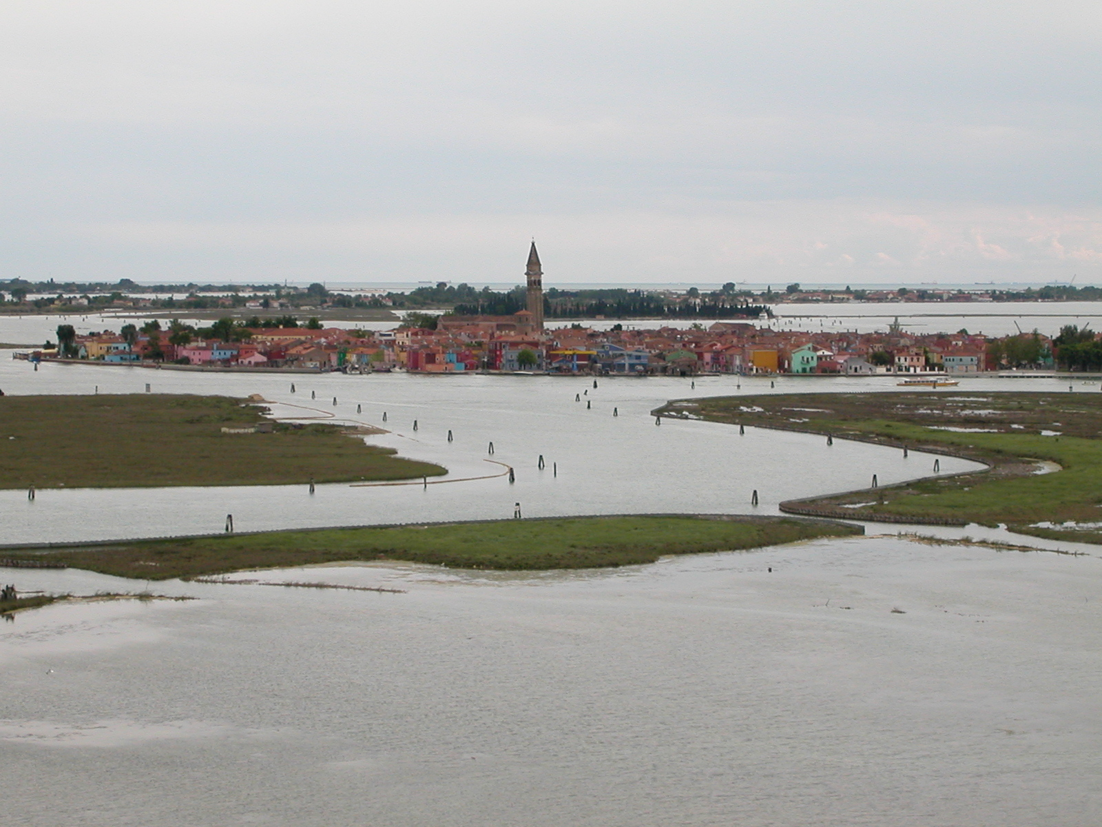 Burano seen from Torcello's campanile